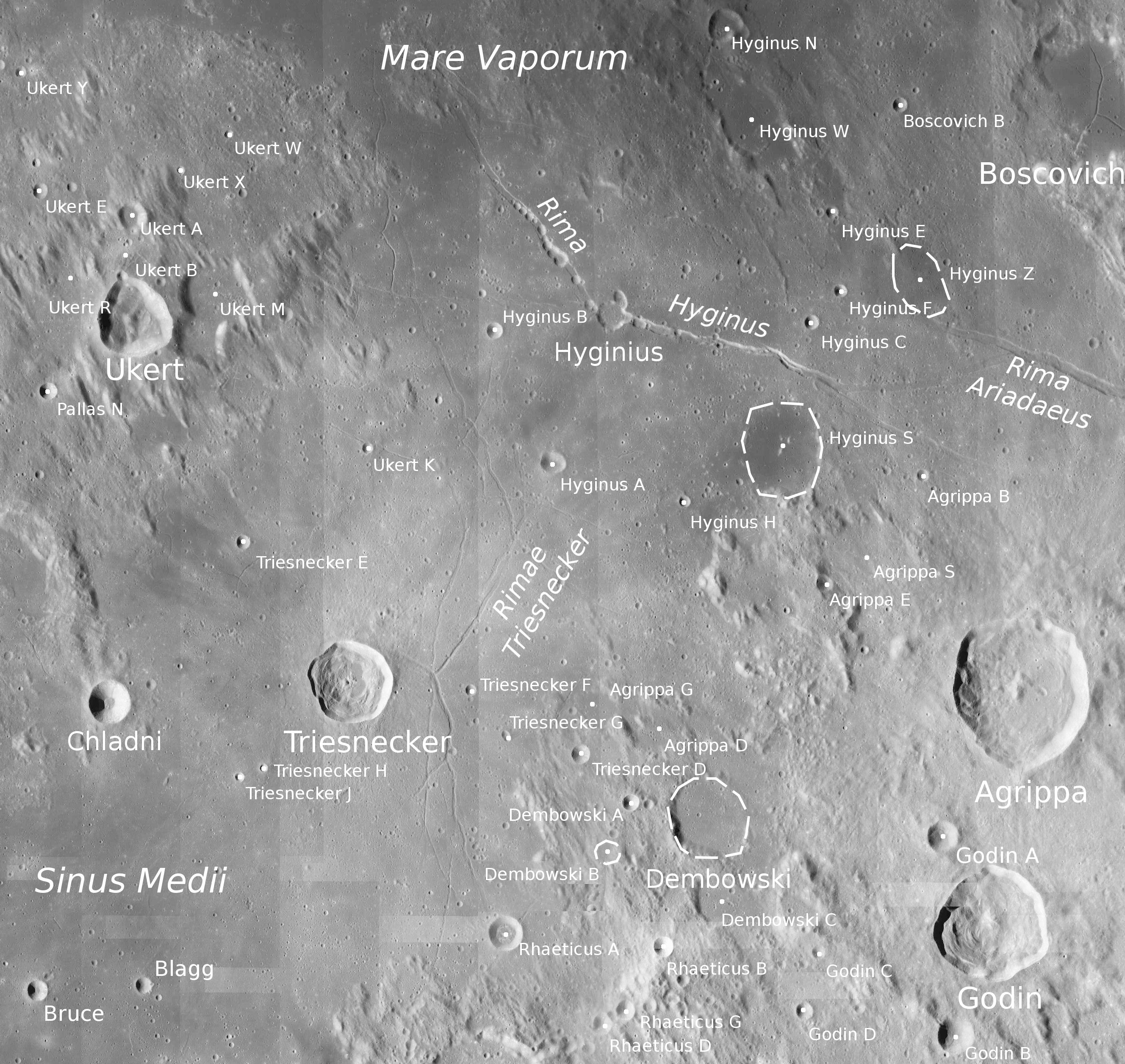 Crater Triesnecker (detail of LRO - WAC global moon mosaic; Mercator projection)